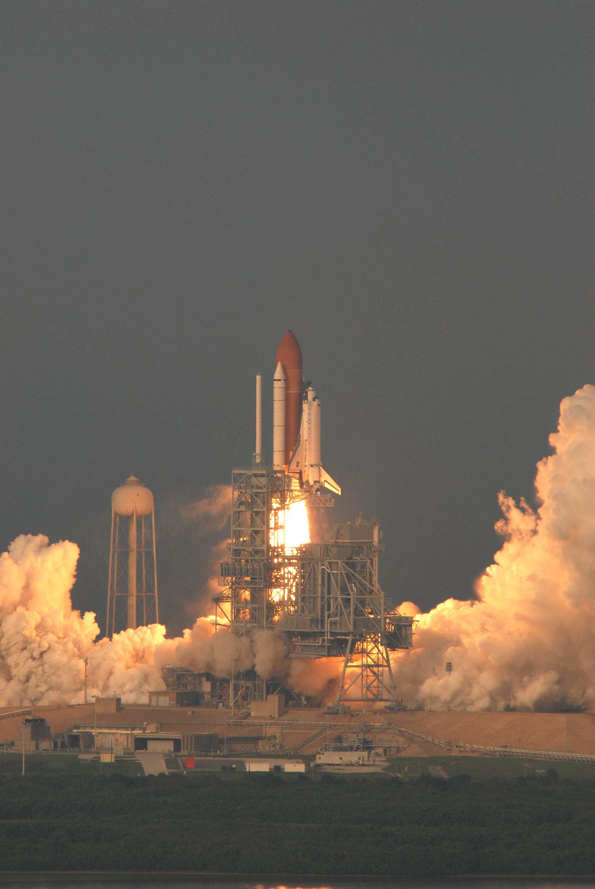 Space Shuttle Endeavour climbs above the fixed service structure on Launch Pad 39A as it begins its journey on mission STS-118